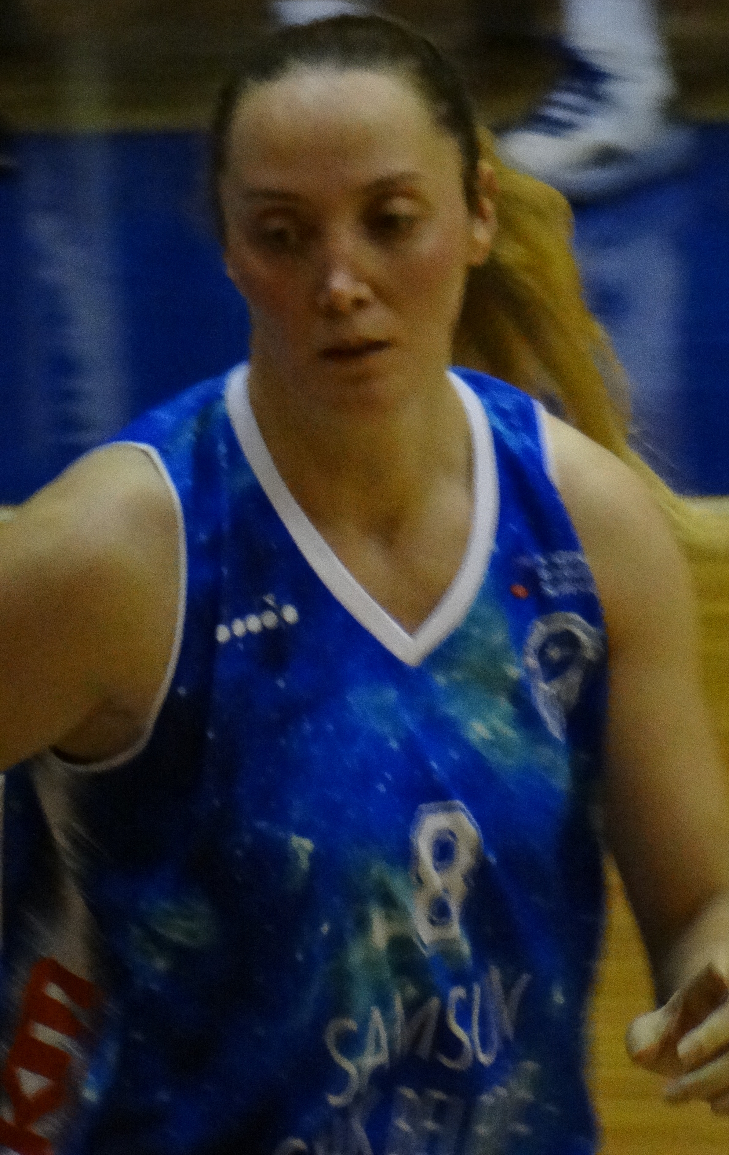 Fenerbahçe women's basketball vs Samsun Canik Belediyespor 20181216